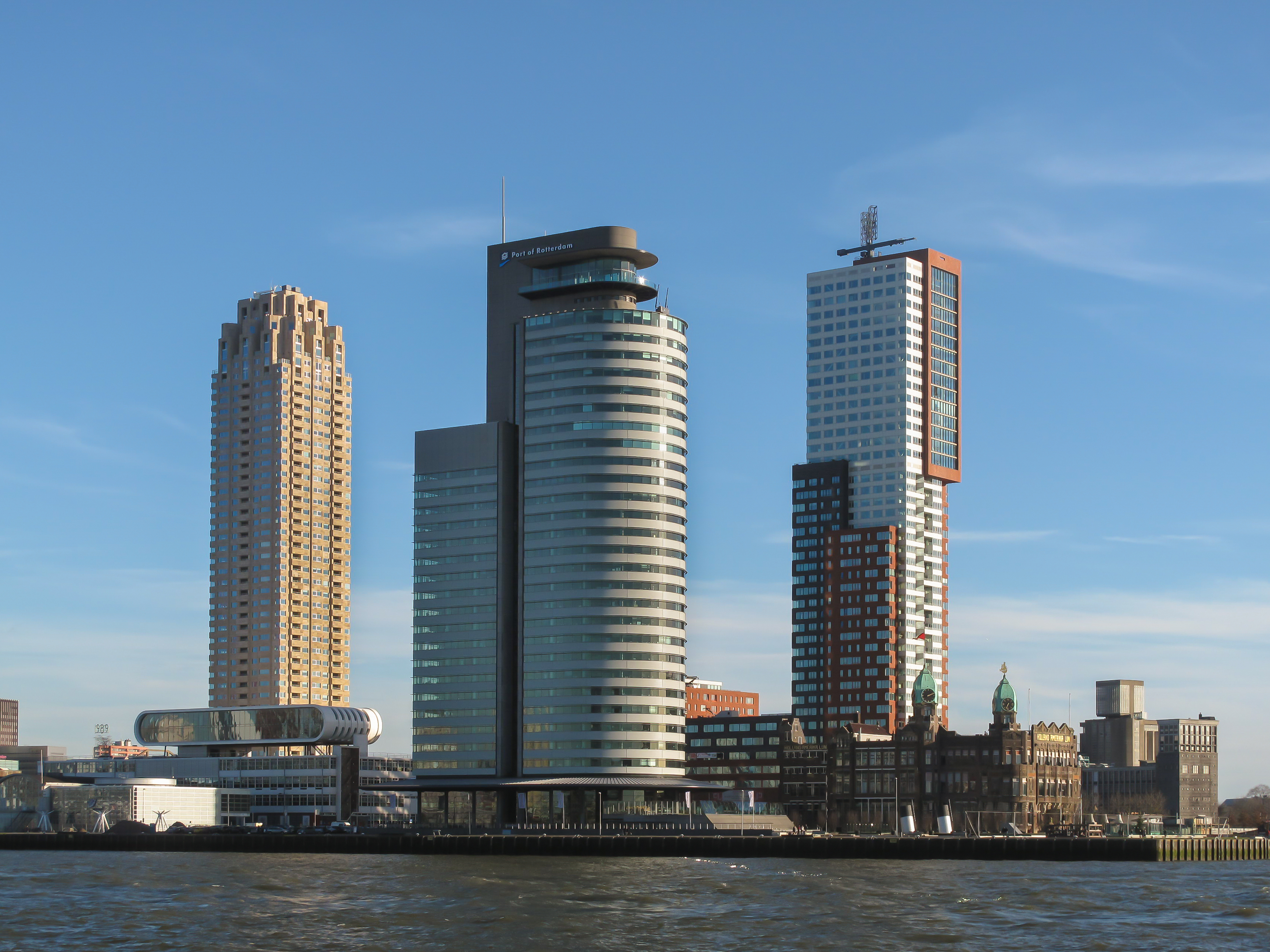 Rotterdam-Kop van Zuid, New Orleans, World Portcenter, Montevideo and hotel New York